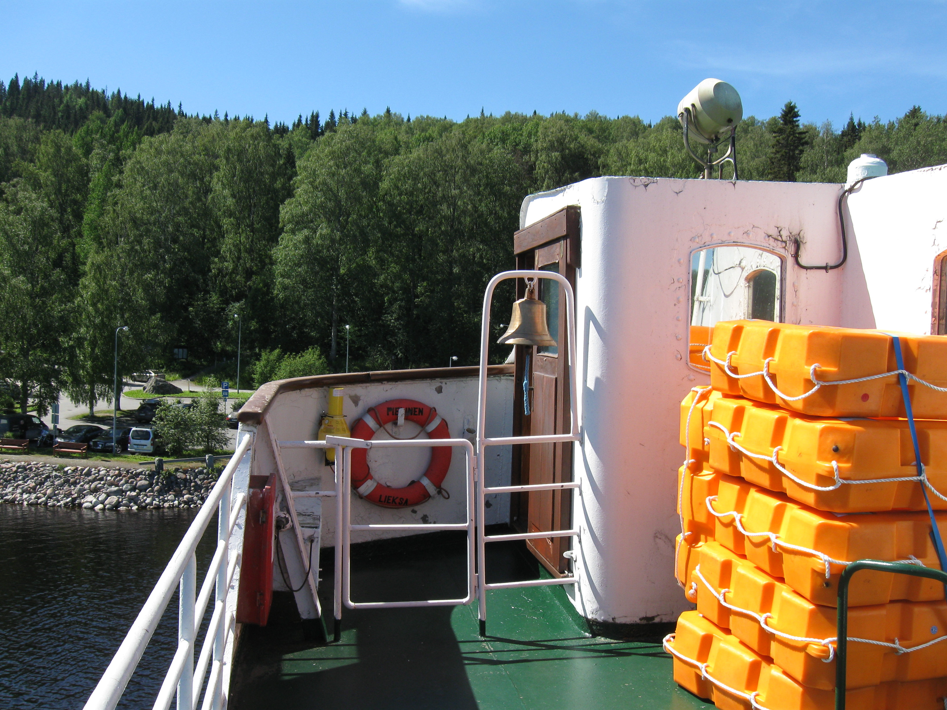 M/S Pielinen leaving the Koli harbour at the lake Pielinen in Koli, Finland in July 2014.